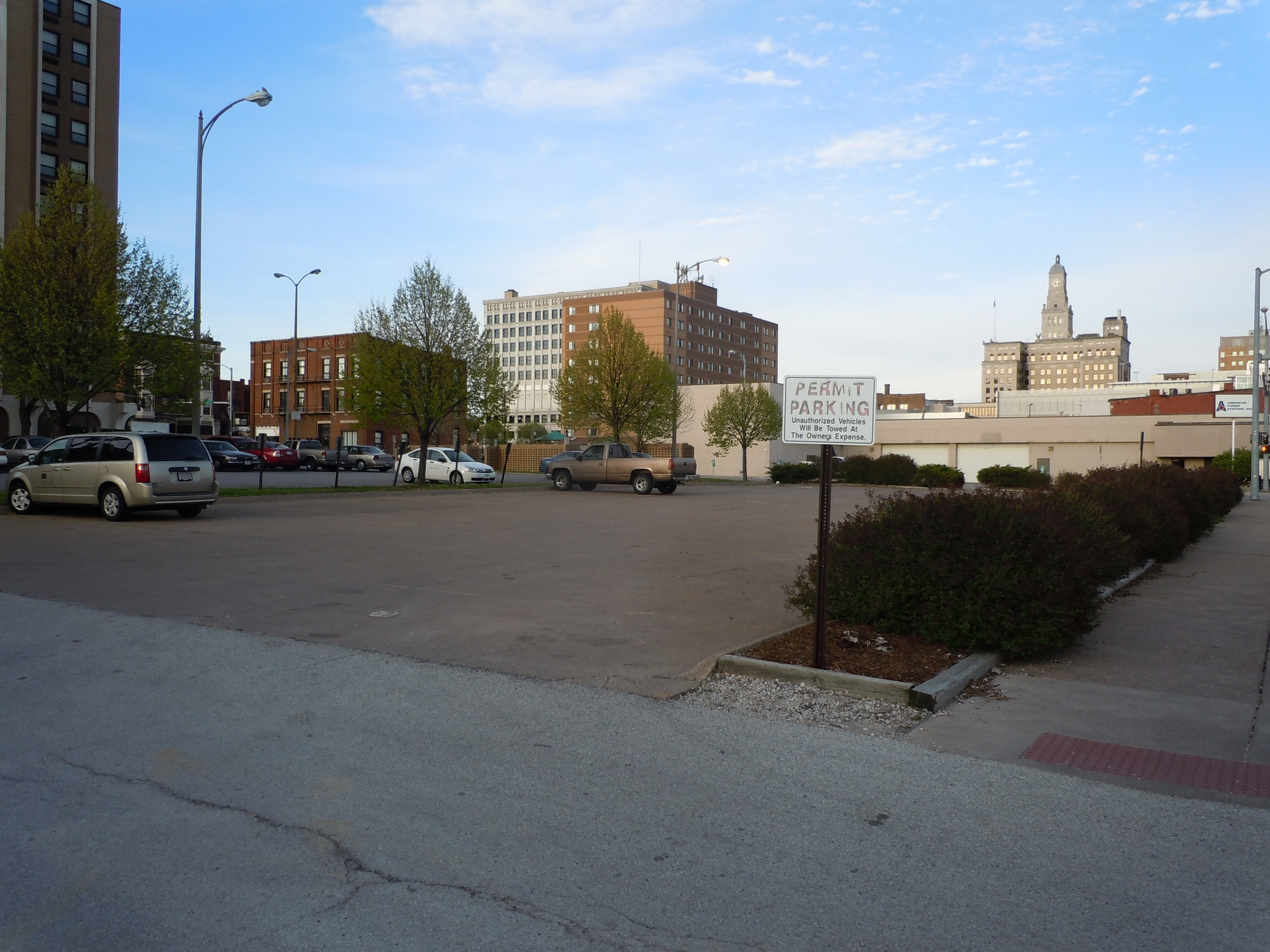 Site of the Hoffman Building (still) on the NRHP since July 7, 1983. 510 W. 2nd St., parking lot covers more than just 510, in Davenport, Scott County, Iowa. Was a Greek Revival style commercial building from 1855. Likely covers the site of the Prien Building 506-508 W. 2nd St. as well.